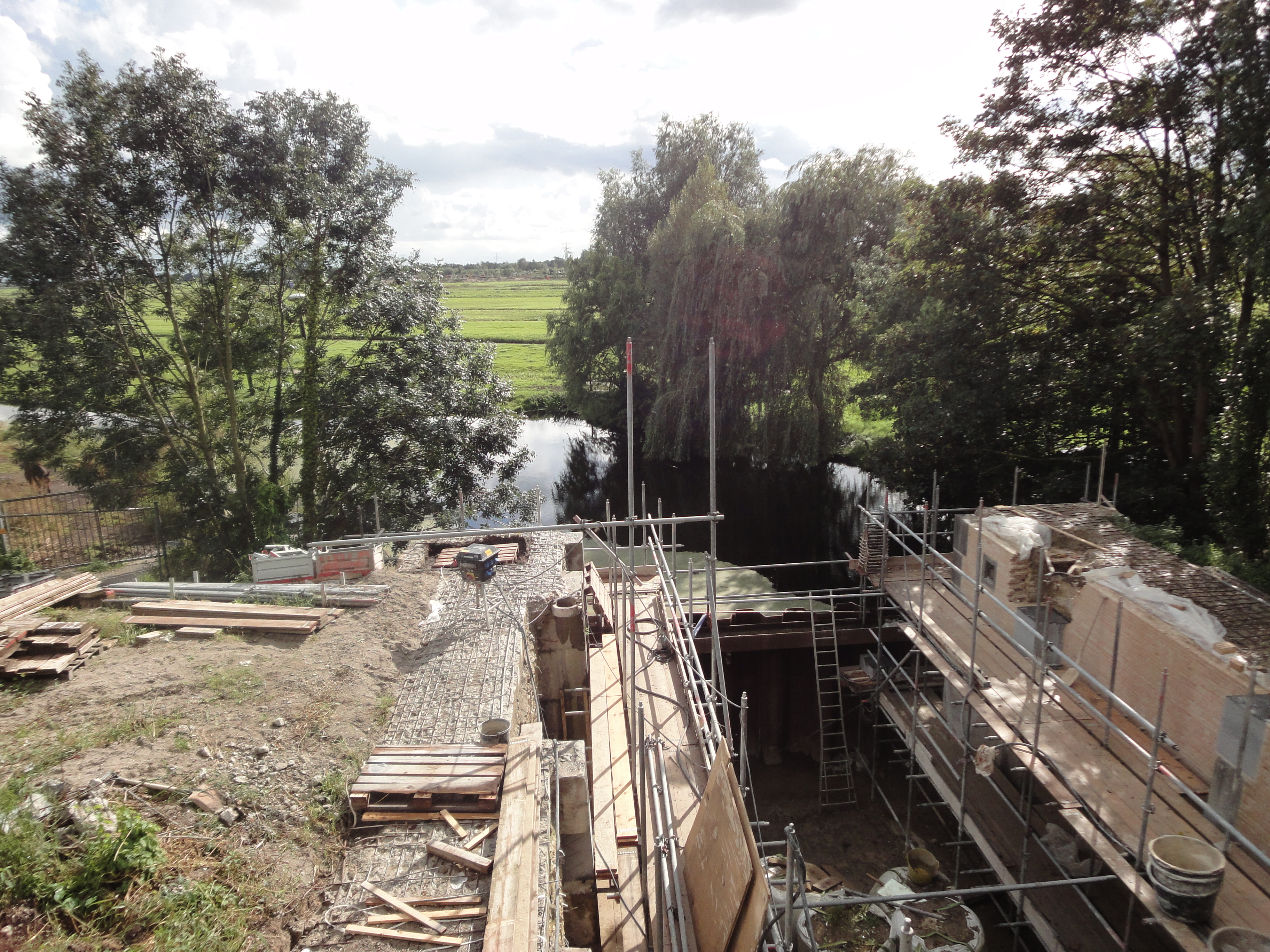 Gouderaksedijk, gouda